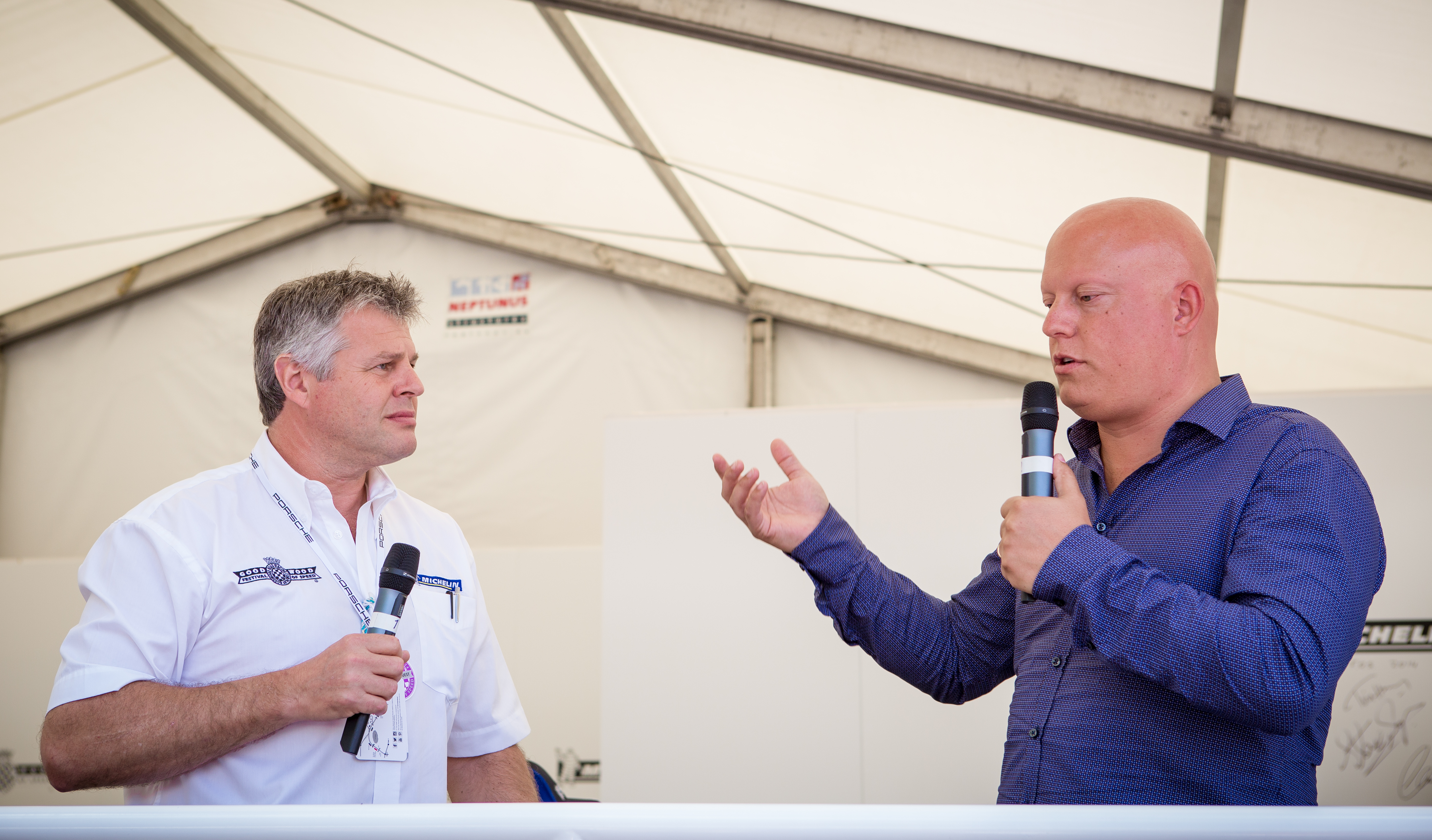 See more photos and video at